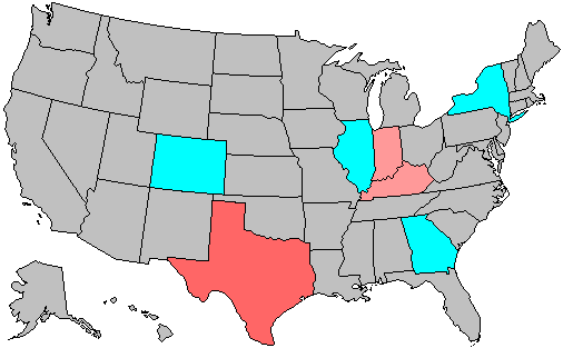 Summary of party change of U.S. house seats in the 2004 House election. Stripes indicate a tie between the gains of two or more parties. Legend: 6+ Democratic seat pickup 3-5 Democratic seat pickup 1-2 Democratic seat pickup 1-2 Republican seat pickup 3-5 Republican seat pickup 6+ Republican seat pickup